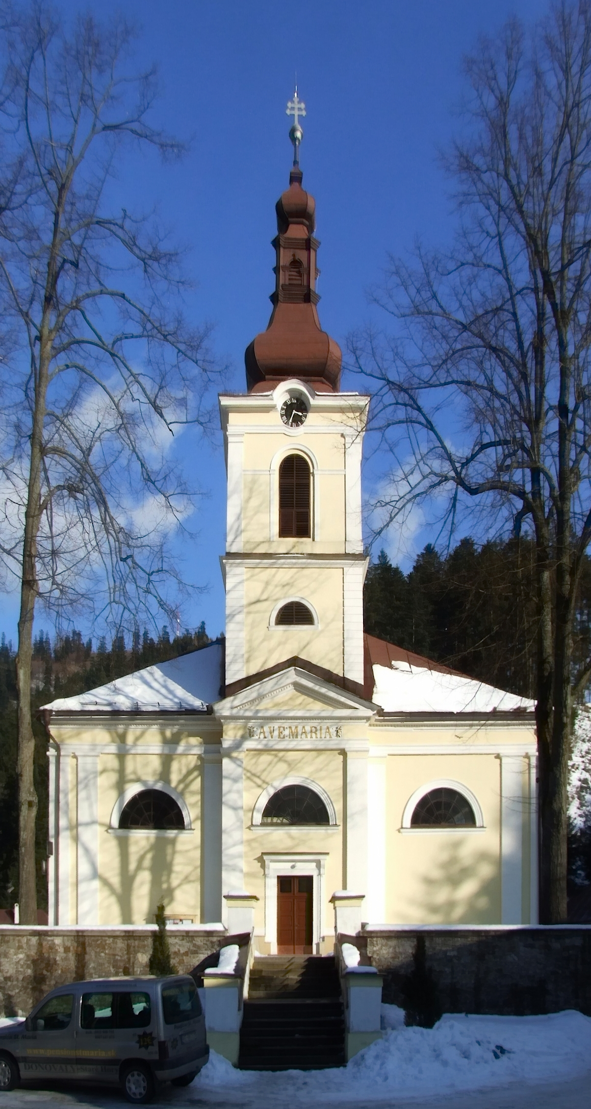 Church in Staré Hory, Slovakia Ślůnski: Kośćůł we wśi Staré Hory, Słowacyjo